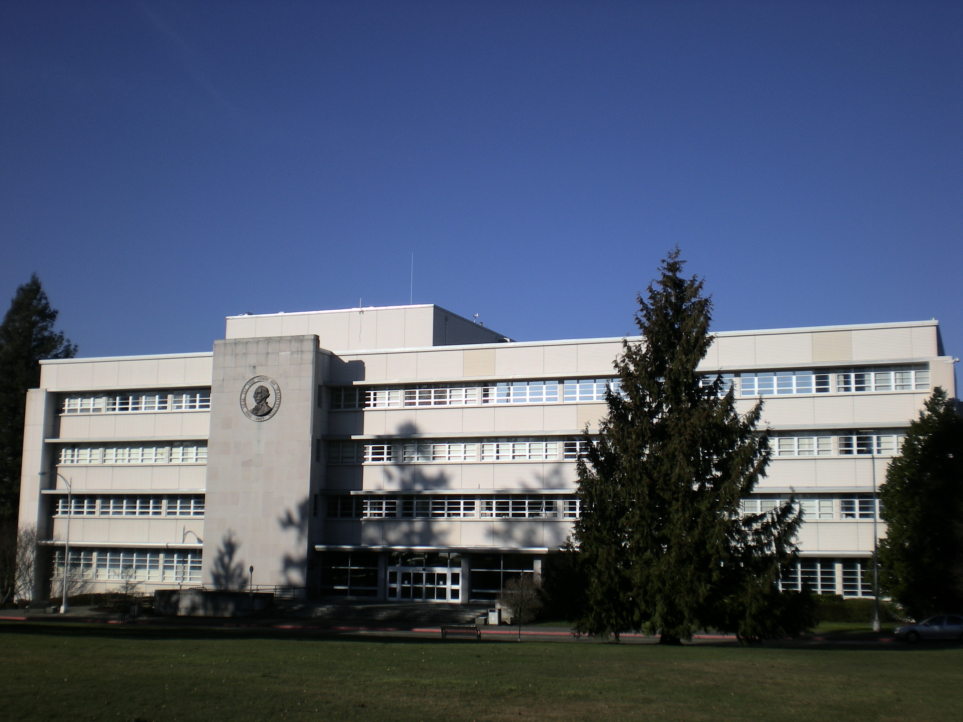 The General Adminstration Building in Olympia, Washington